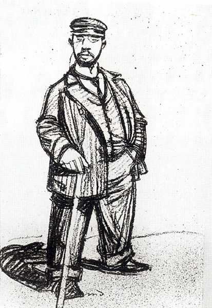 Henri Toulouse Lautrec by Maxime Dethomas (c.1896). Drawing based on a photograph taken by Dethomas.